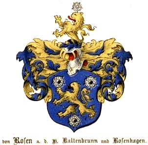 Coat of arms of von Rosen family (white)